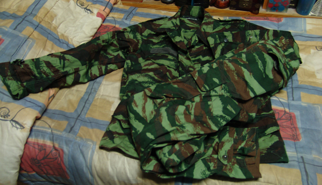 French uniform (field jacket and cargo trousers) in Lizard camouflage (1970s variant)